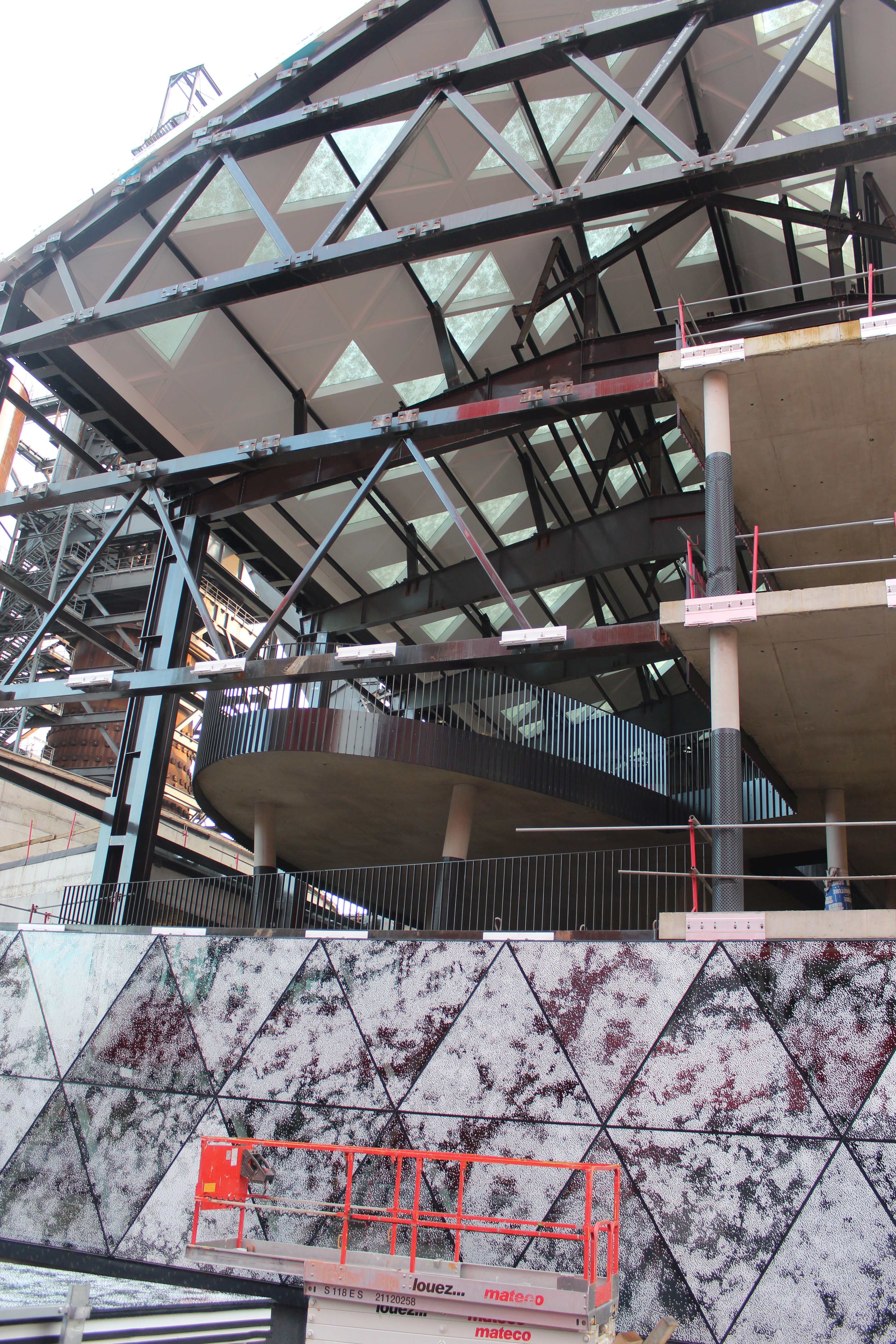 Maison du Livre at Belval, Luxembourg: Structure and elements of future glass facade